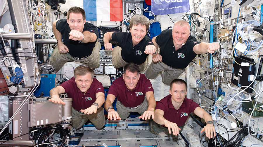 The six-person Expedition 50 crew poses for a group portrait inside the Columbus lab module from the European Space Agency. (Top row from left) Flight Engineers Thomas Pesquet, Peggy Whitson and Oleg Novitskiy. (Bottom row from left) Flight Engineer Andrey Borisenko, Commander Shane Kimbrough and Flight Engineer Sergey Ryzhikov.